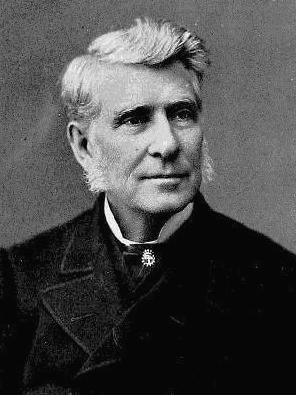 Alfred Smith Barnes, American publisher and philanthropist, founder of A.S. Barnes & Co.